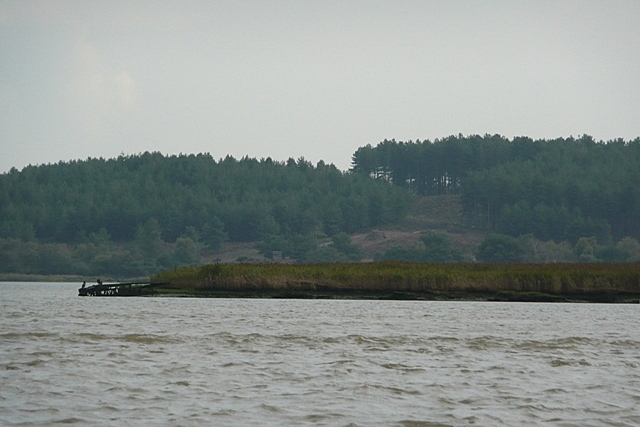 Gigger's Island The north end of Gigger's Island with the wooded section of Arne Heath in the background. This is taken about an hour after first high water and already the waves indicate that the water from about halfway between us and the island is very shallow. Gigger's Island is otherwise known locally as Horse Island, because it was a place that horses were put into quarantine if arriving at Poole Harbour from abroad.